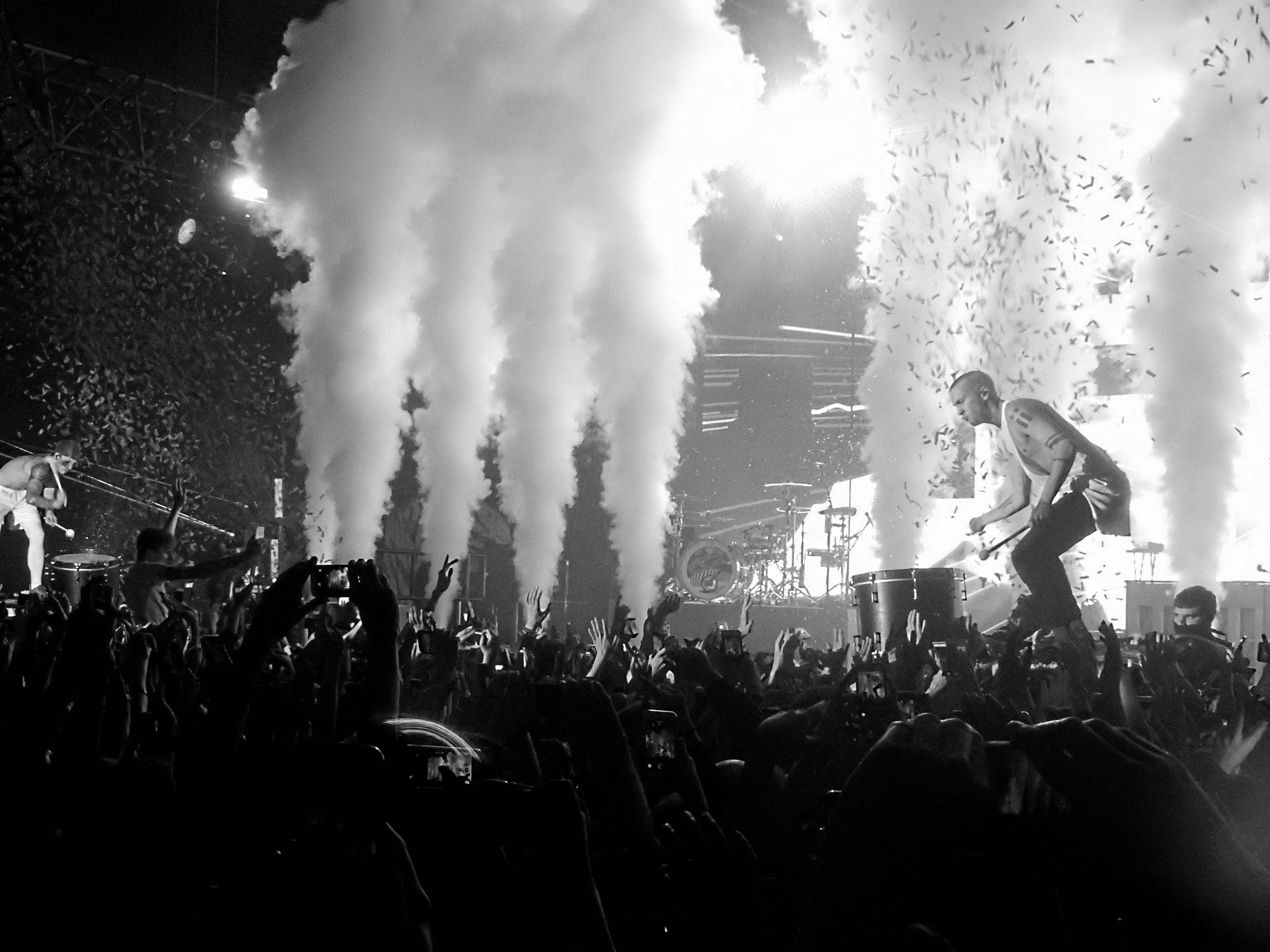 Twenty One Pilots, Alexandra Palace, London